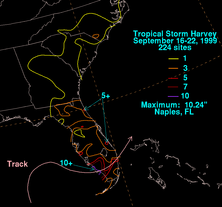 Harveys rainfall in Florida.